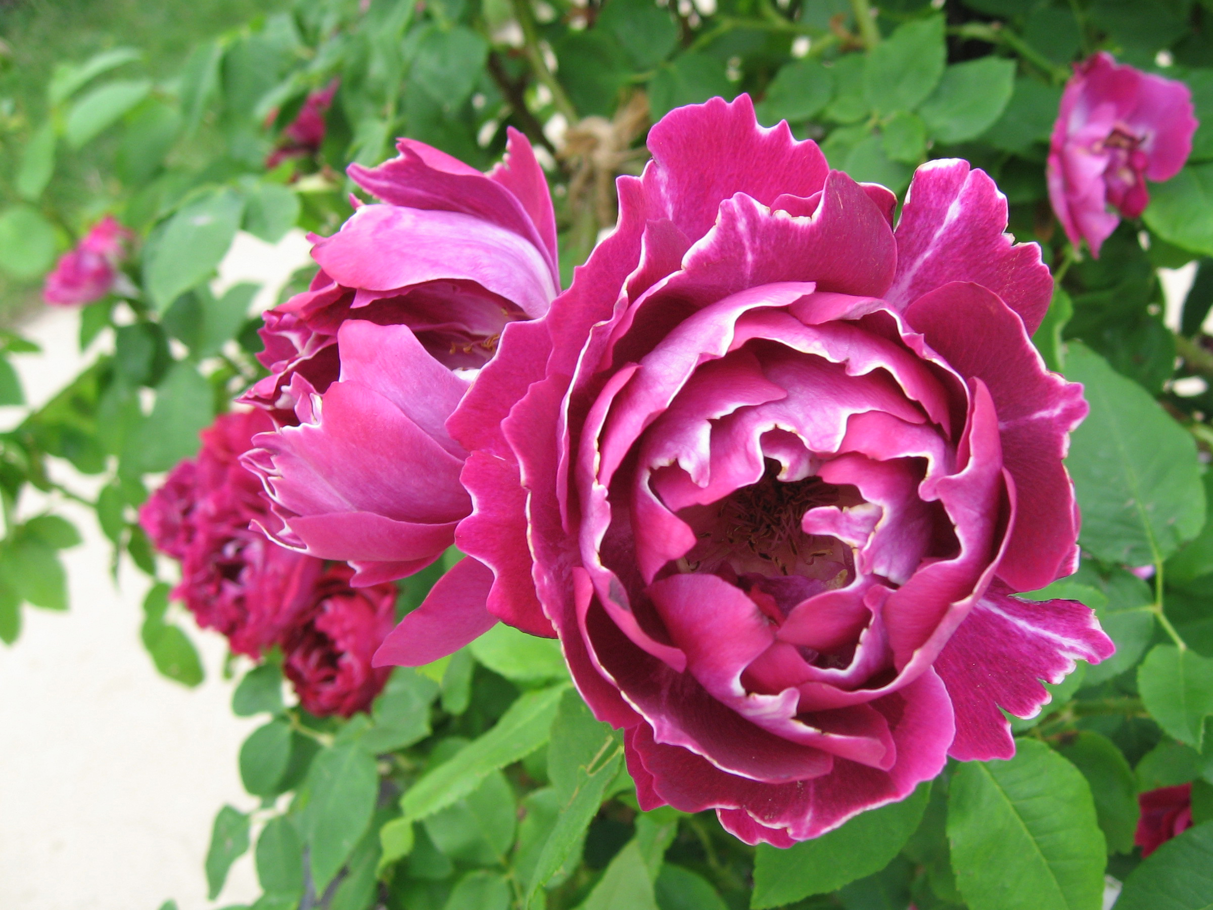 Rosa cv 'Baron Girod de l'Ain', OR(HP), Reverchon (1897), Isedera Matsusaka Mie, Japan